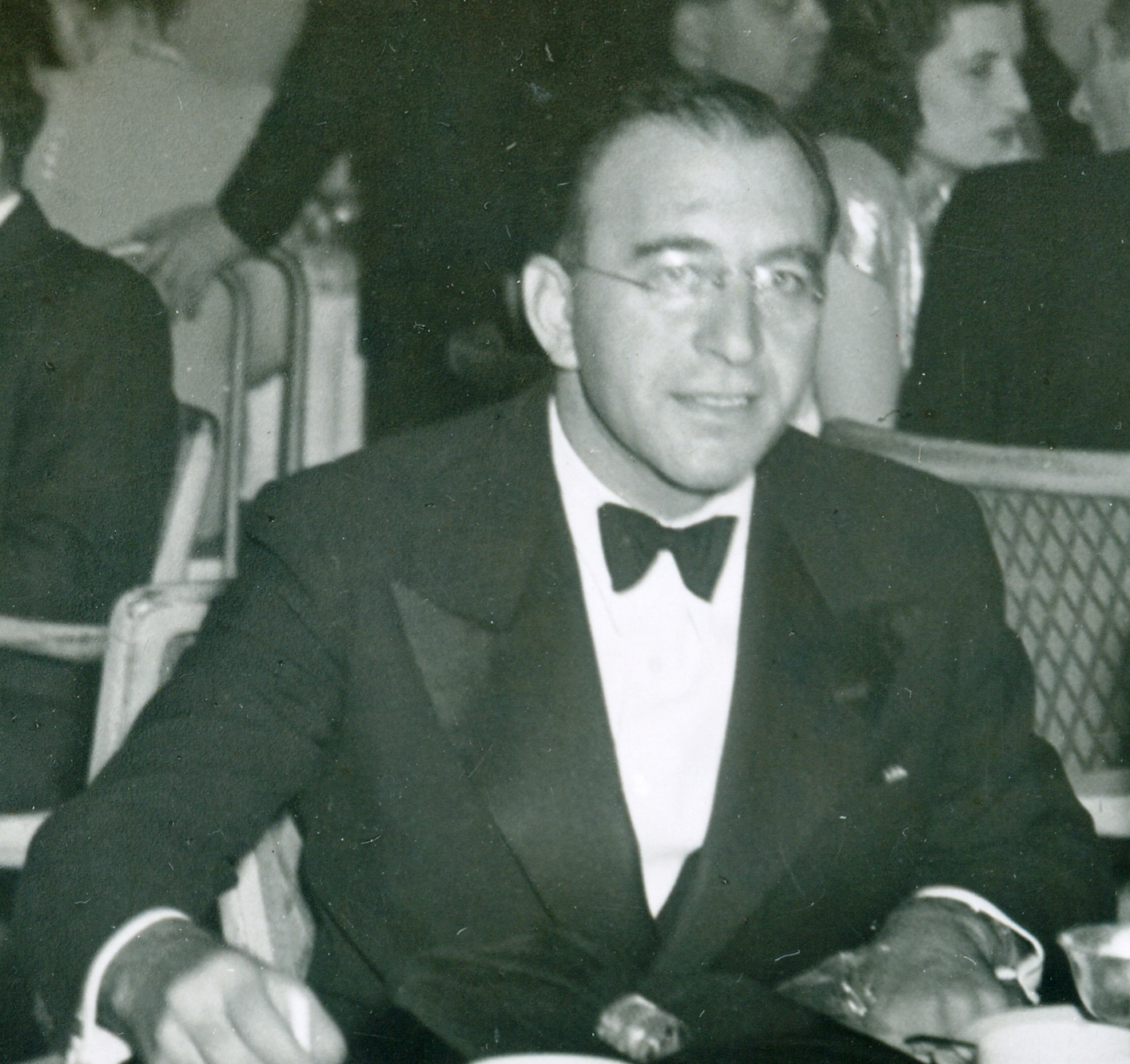 Max Seligman was Was a lawyer in the Jewish community in Israel during the British Mandate